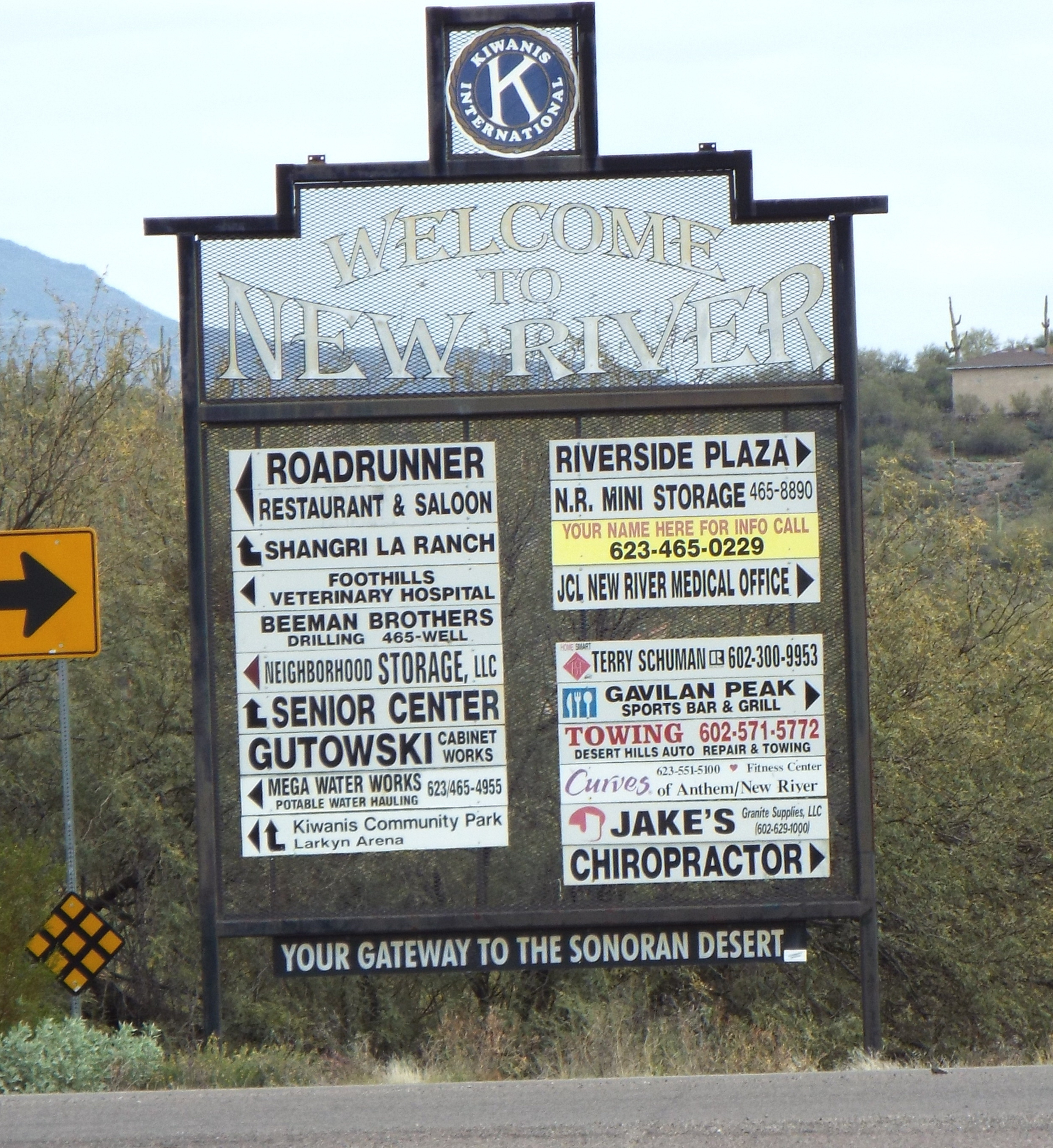 Welcome to the town of New River sign.